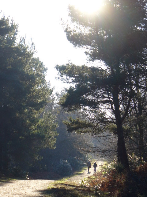 Rambling on Holmbury Hill Popular birch and pine woodlands on the Greensand Ridge.